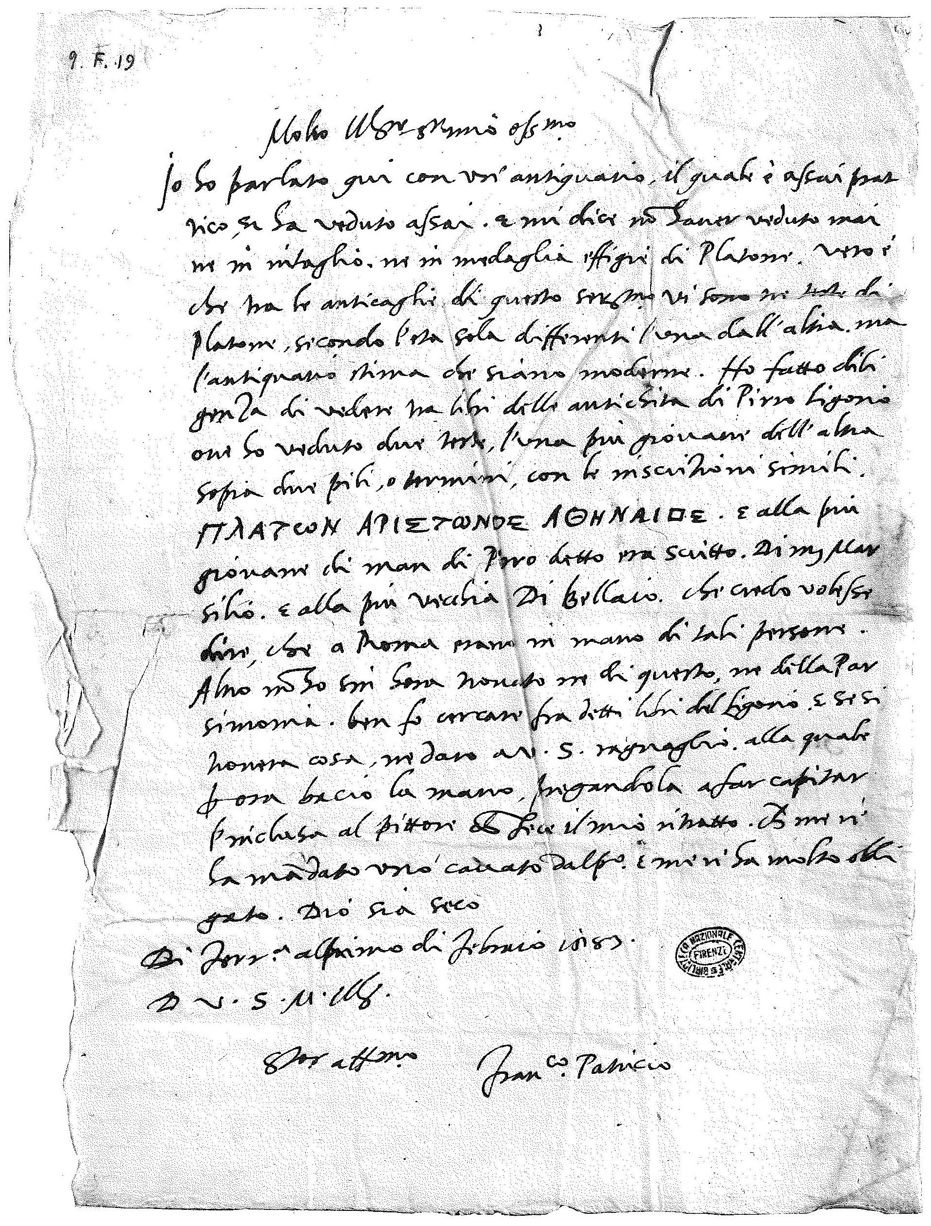 Autograph letter of Patrizi to Baccio Valori. Florence, Biblioteca Nazionale Centrale, Filze Rinuccini 19, fol. 9r.